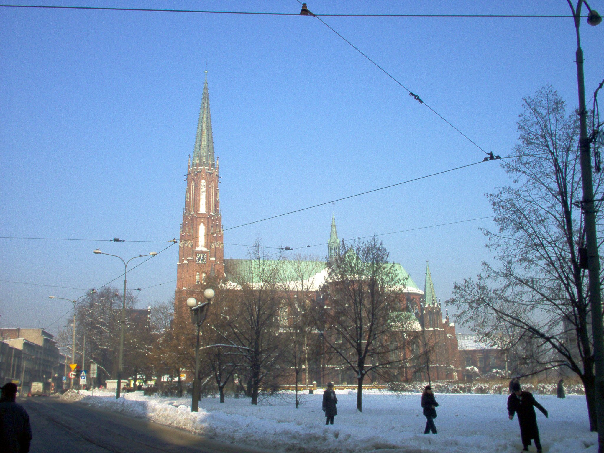 Church of Saint Trinity in Bytom, Poland.